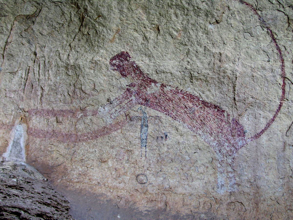 This photo shows the petroglyph of a Panther for which Panther Cave was named. The figure is about nine feet (three meters) across. Panther Cave is located on the Pecos River in Amistad National Recreation Area near Del Rio Texas.